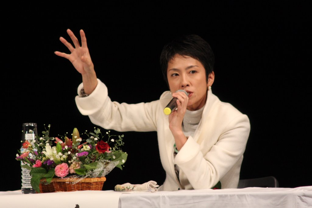 Ren Ho